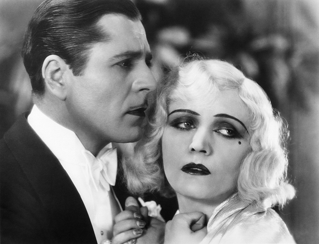 Still portrait of Warner Baxter and Pola Negri in Three Sinners (1928).